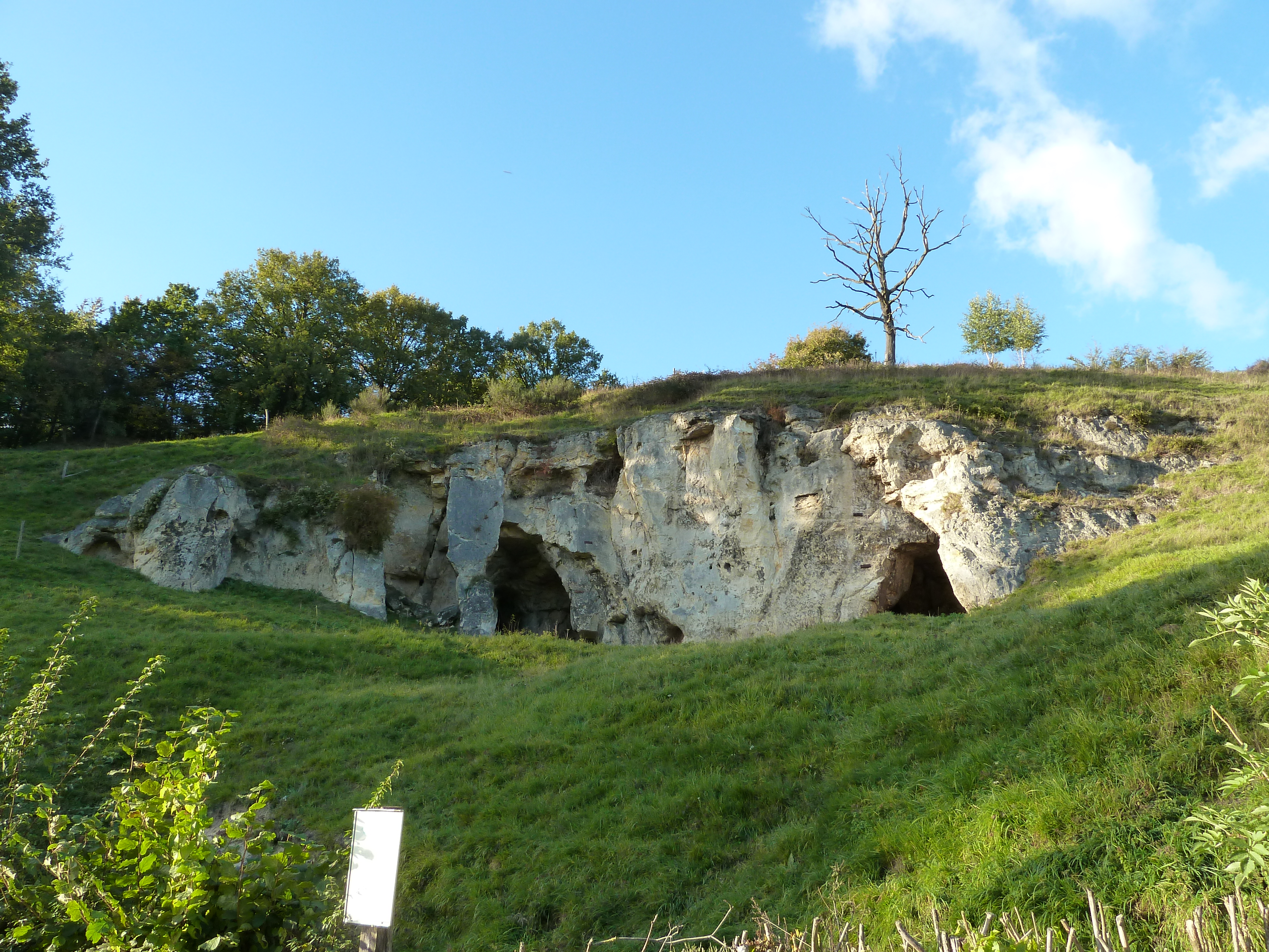 Winkelberggroeve, Bemelen, Limburg, the Netherlands